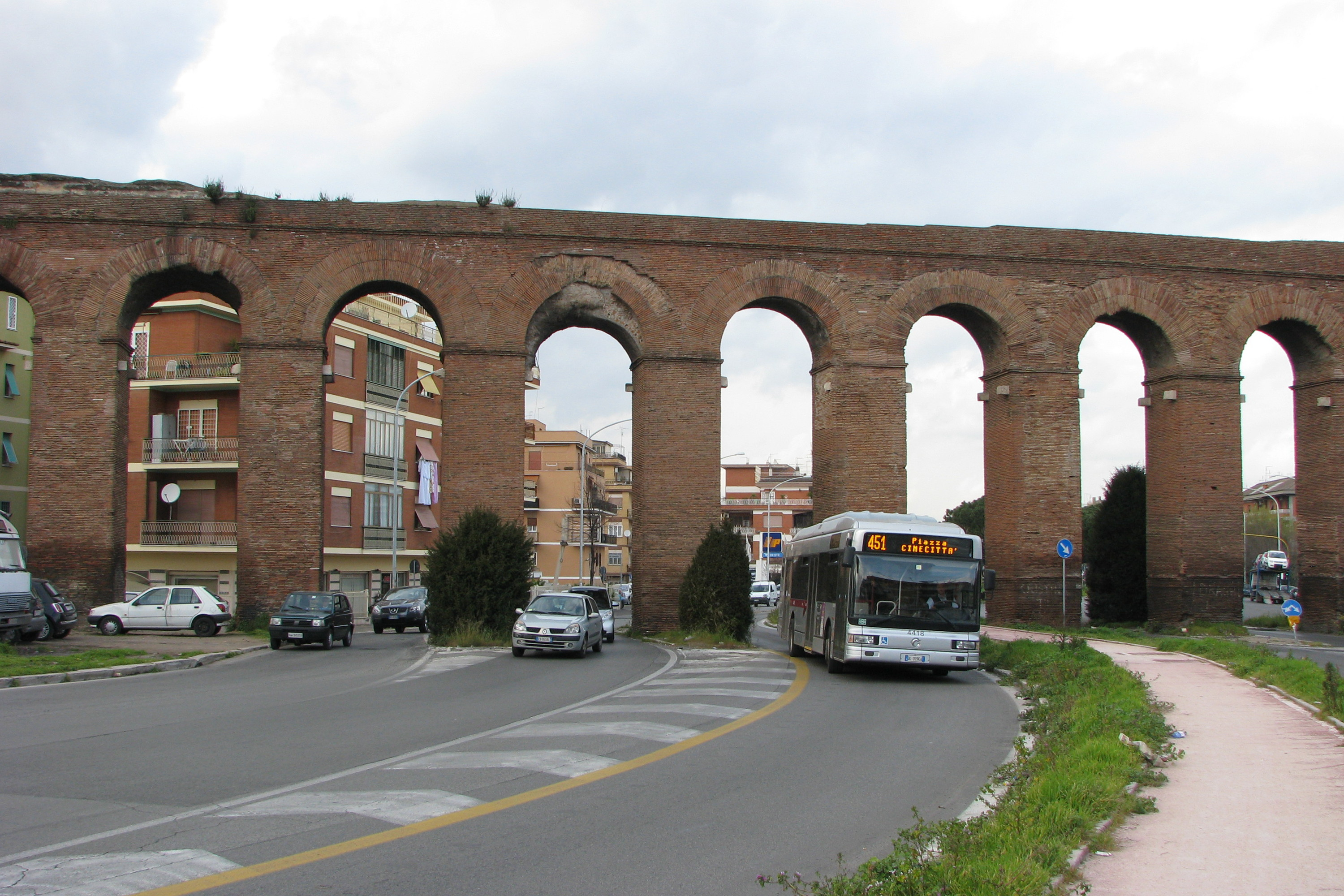 View of the Aqua Alexandrina near Viale Palmiro north of Via Casilina in the district of Centocelle, Rome, Italy